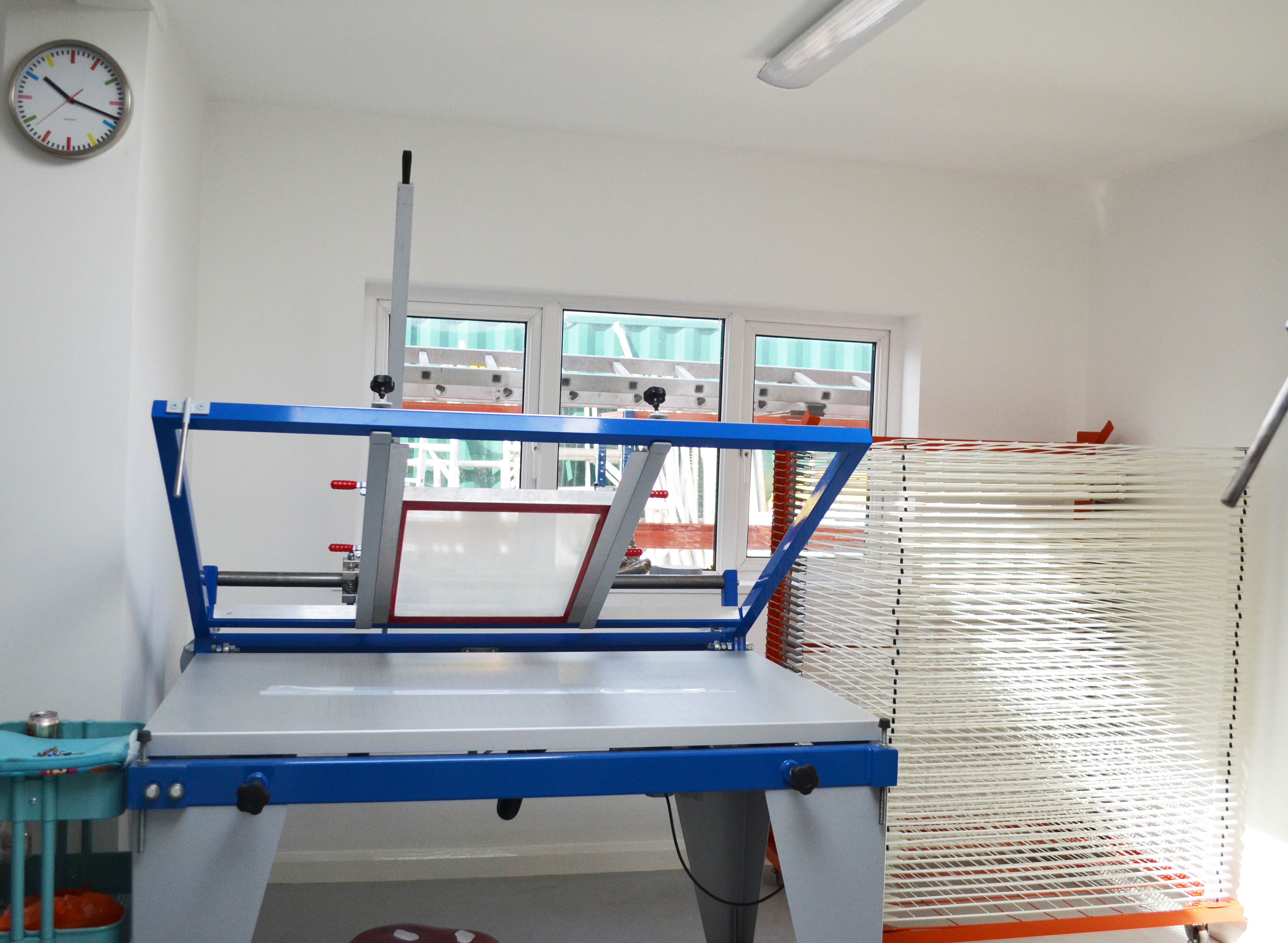 Used to hold screens in place on this screen print hand bench